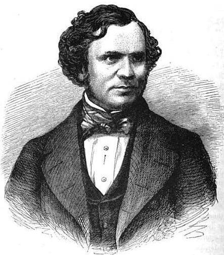 Lord Stanley.